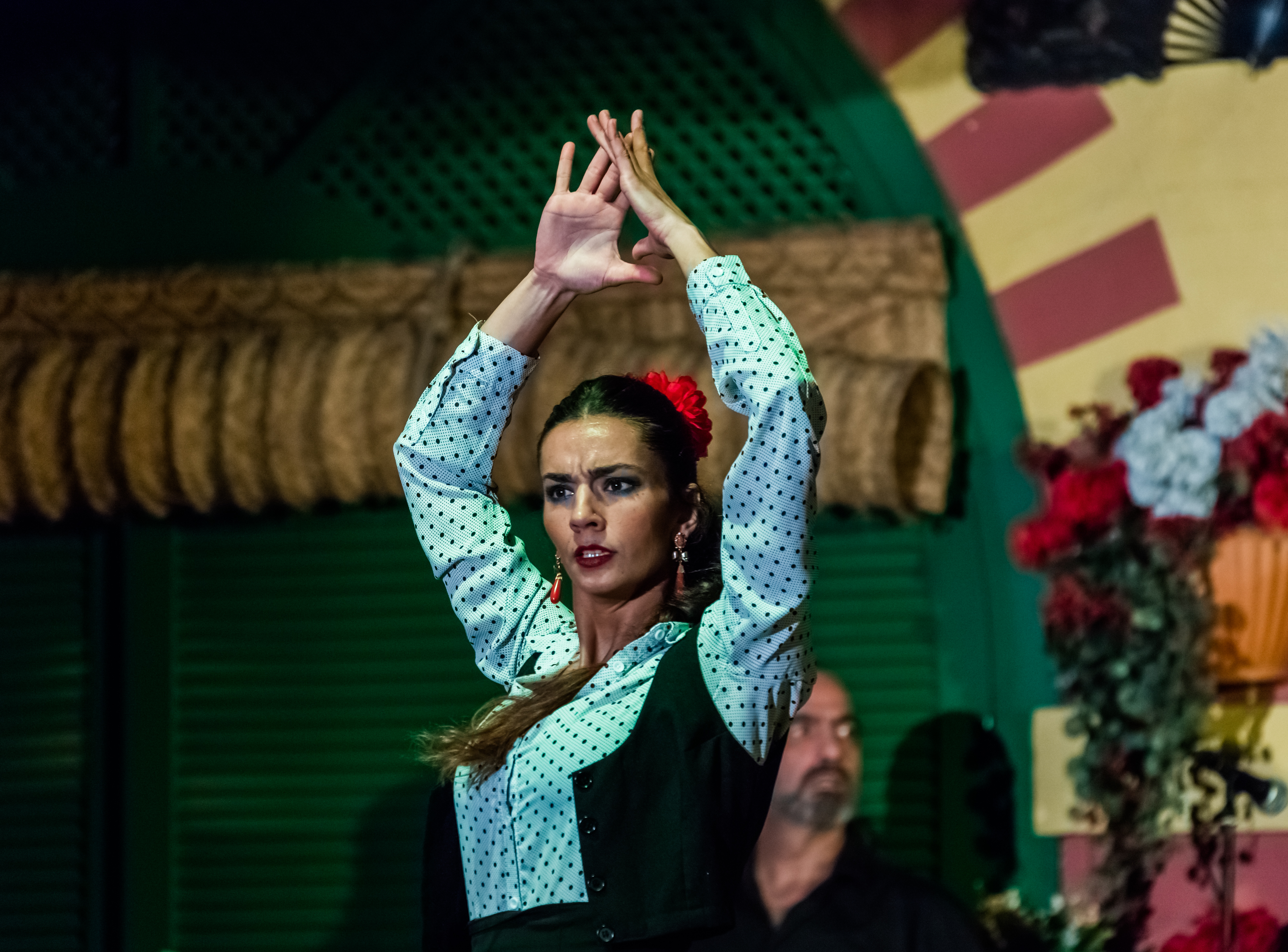 Flamenco performance in Palacio Andaluz, Sevilla, Spain